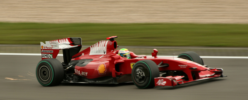 Felipe Massa driving for Scuderia Ferrari at the 2009 German Grand Prix.